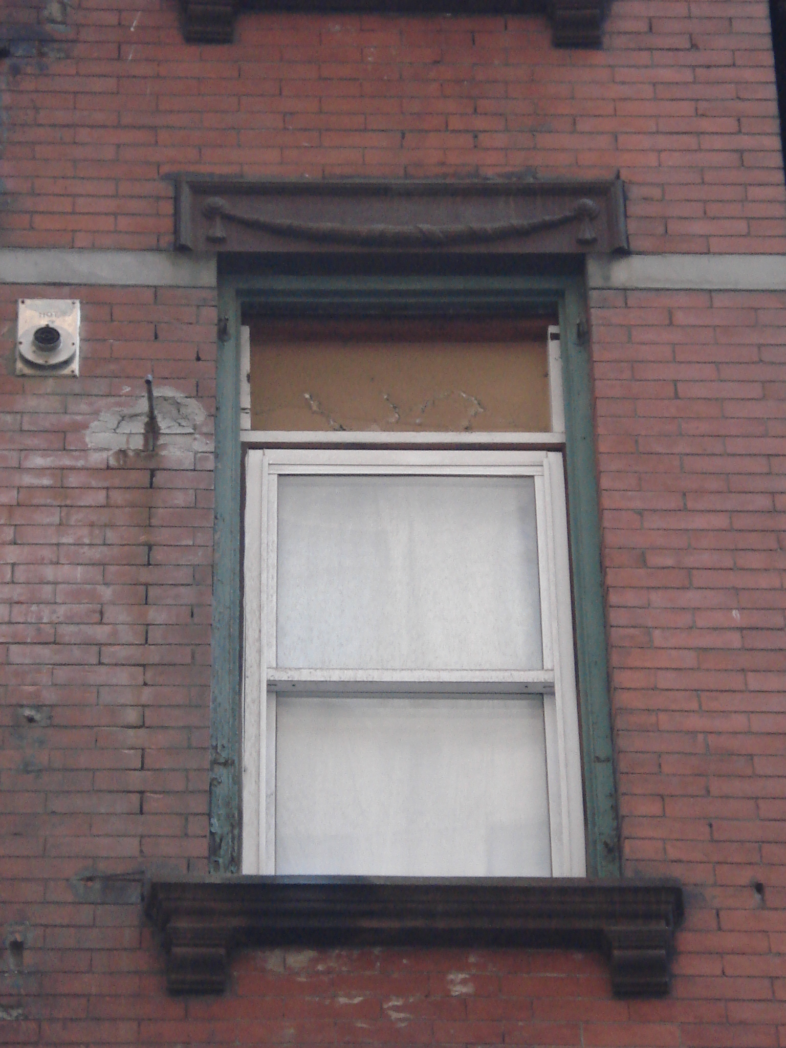 The windows of 109 Washington Street are framed by brownstone sills and lintels with swag reliefs. Image c. 2012.